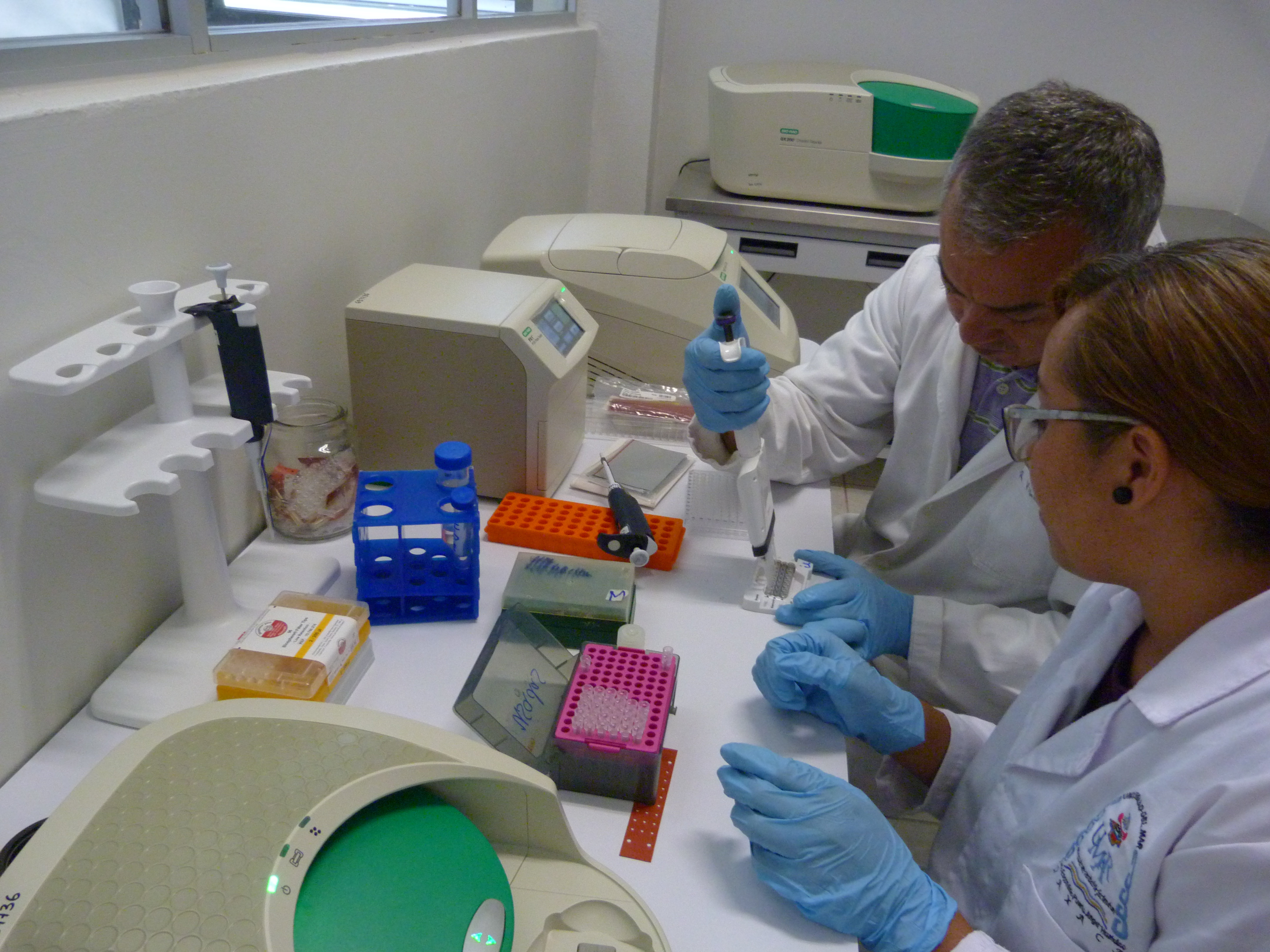 This is a Droplet Digital PCR System, QX200, BIORAT used for research at the Laboratory of Genetics at Universidad del Mar in Puerto Escondido Campus.